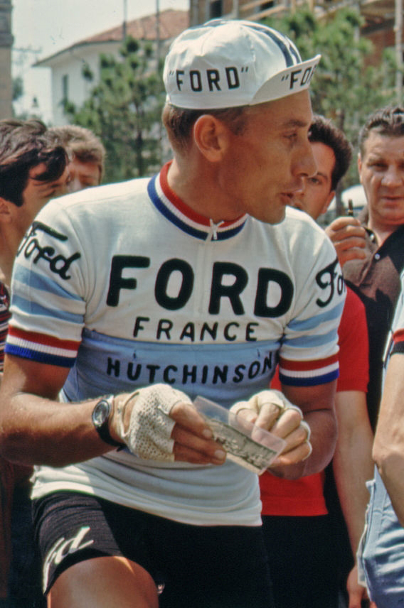 Cyclists Felice Gimondi and Jacques Anquetil talking to each other at the start of a stage of the Giro d'Italia. Italy, May 1966